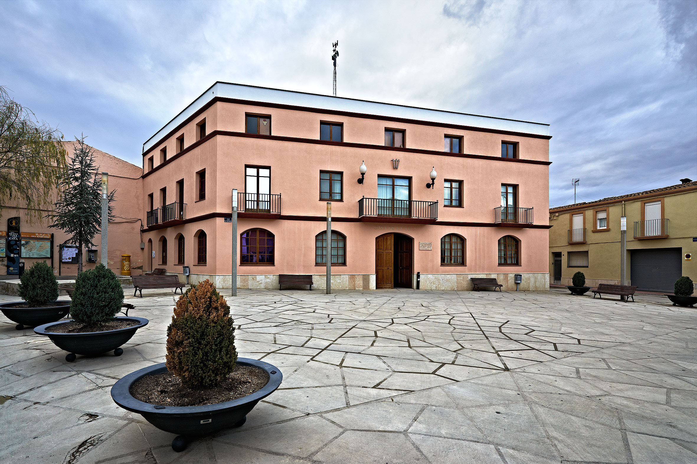 Pla del Penedès Council, Catalonia, Spain.